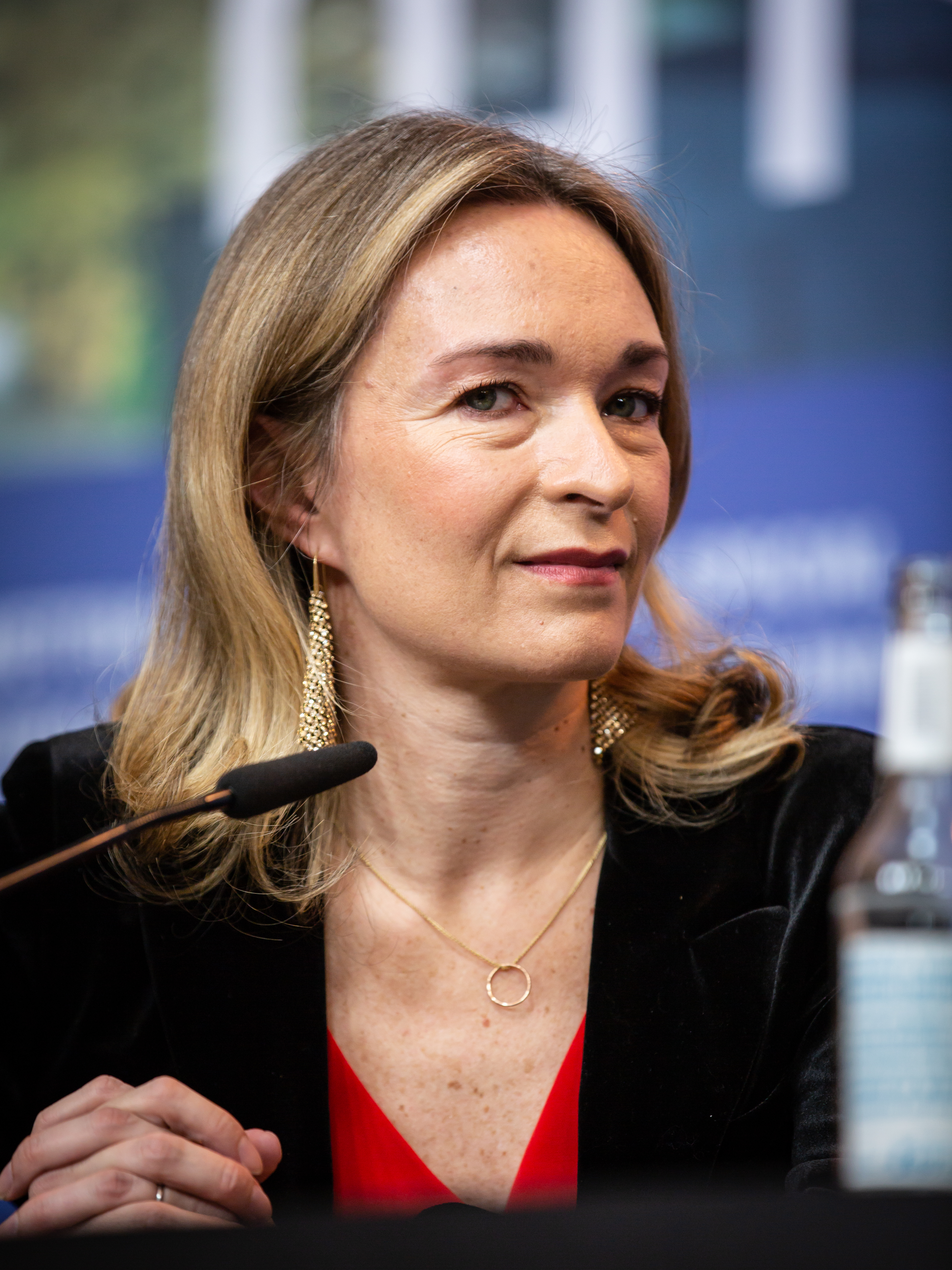 Film producer Celine Rattray at the Berlinale 2019